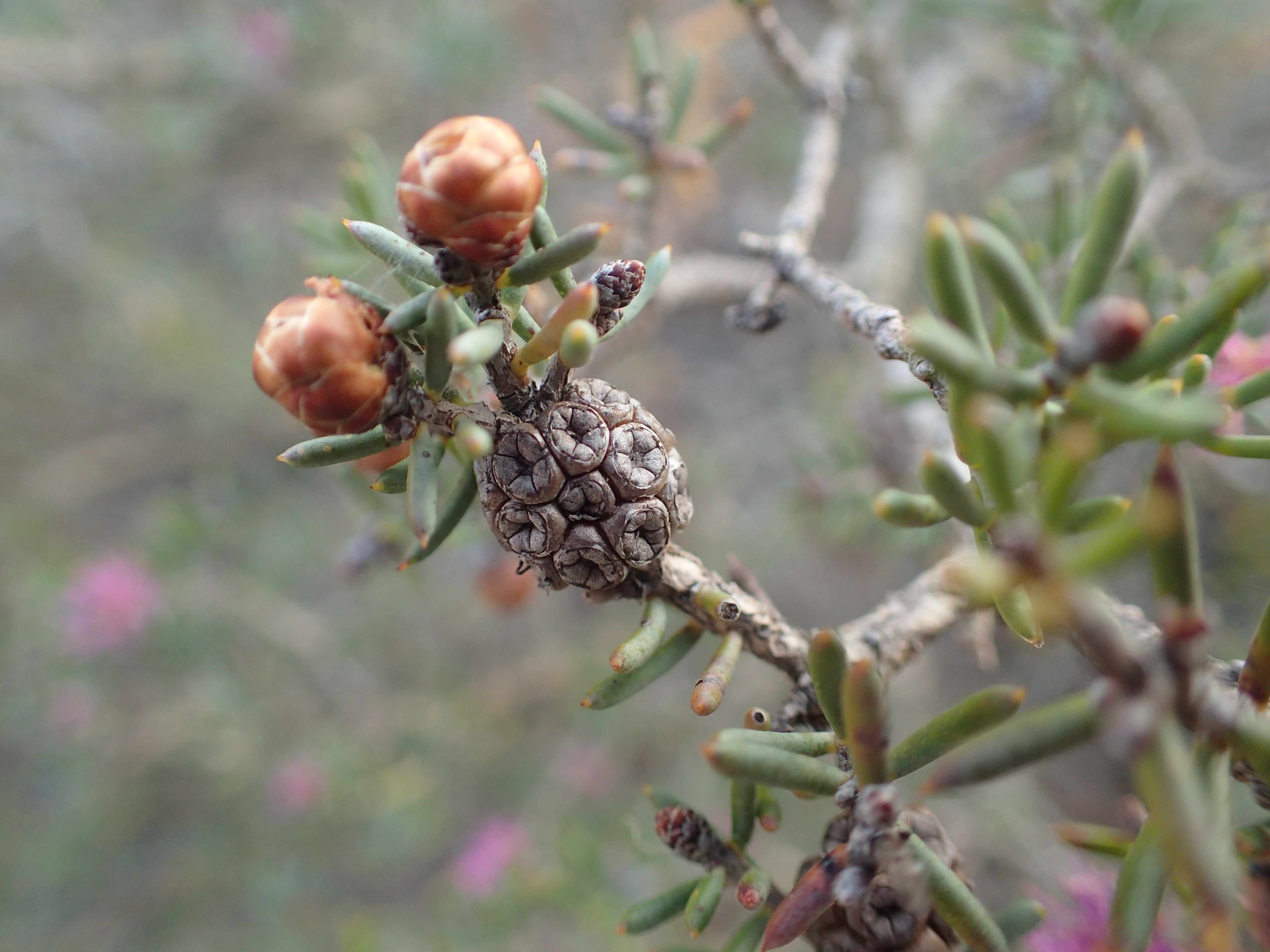 Melaeluca concinna fruit